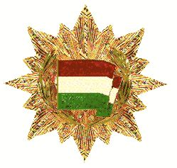 Order of the Flag of the People'Republic of Hungaria